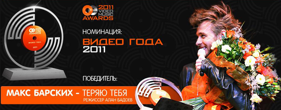 OEVMA2011-01